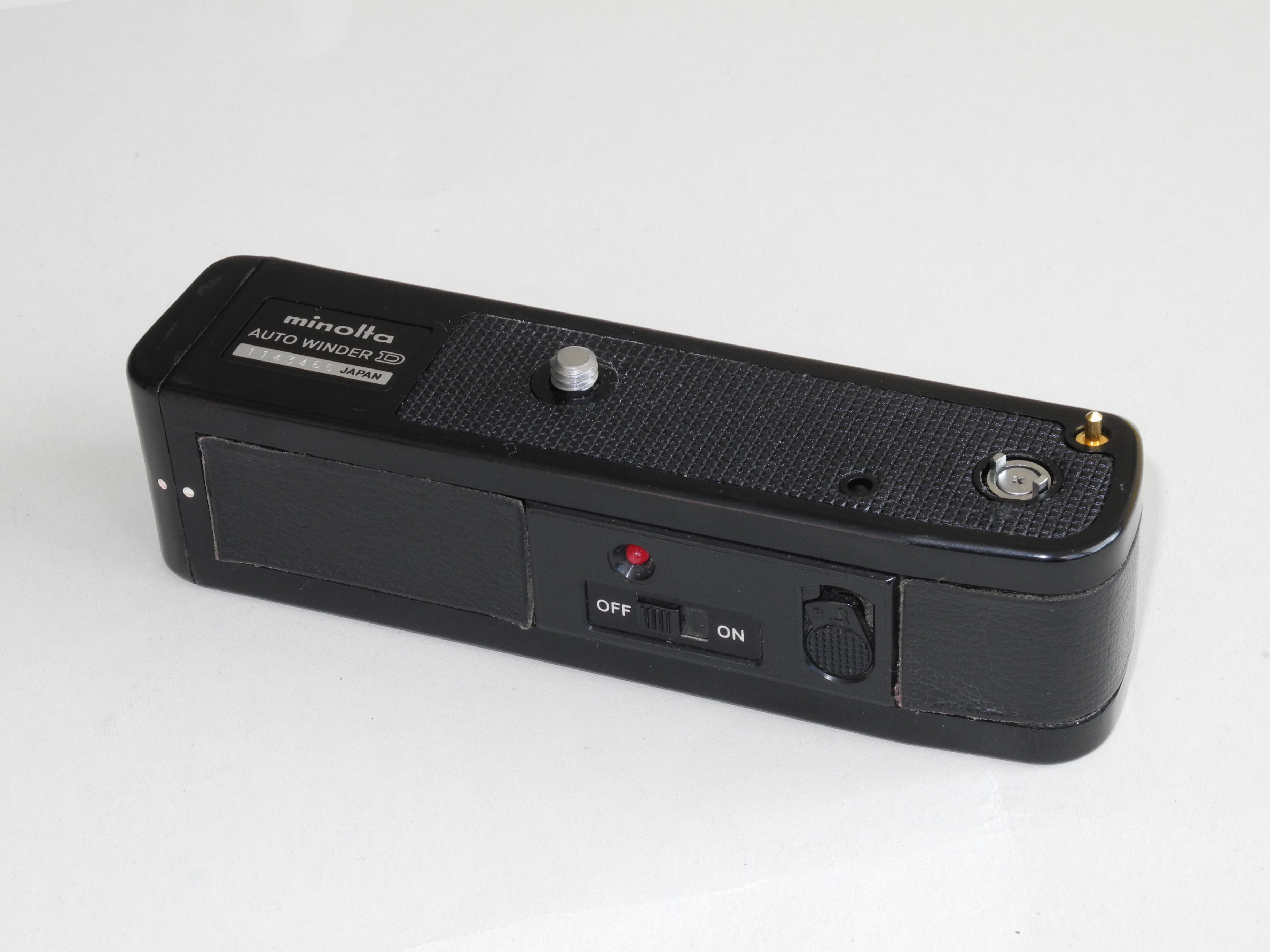 Minolta auto winder D for Minolta-XD SLR cameras, rear view